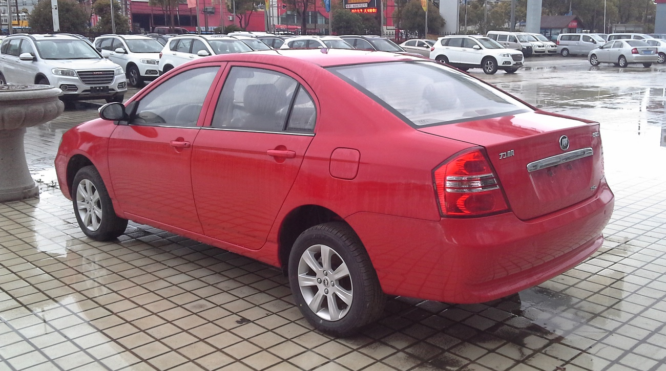 Lifan 620 photographed in Shanghai, China.